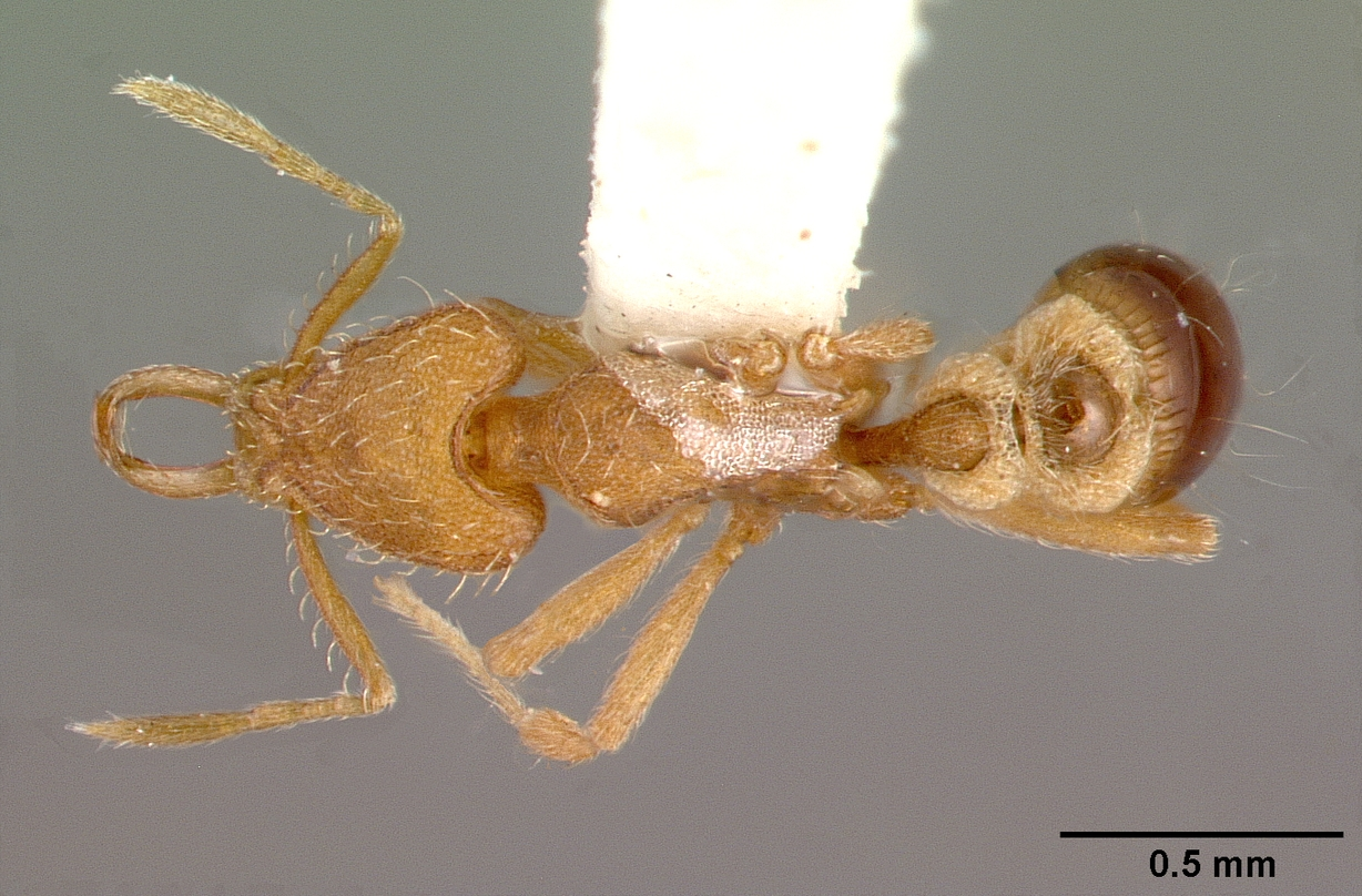 Dorsal view of ant Strumigenys lewisi specimen casent0010646.